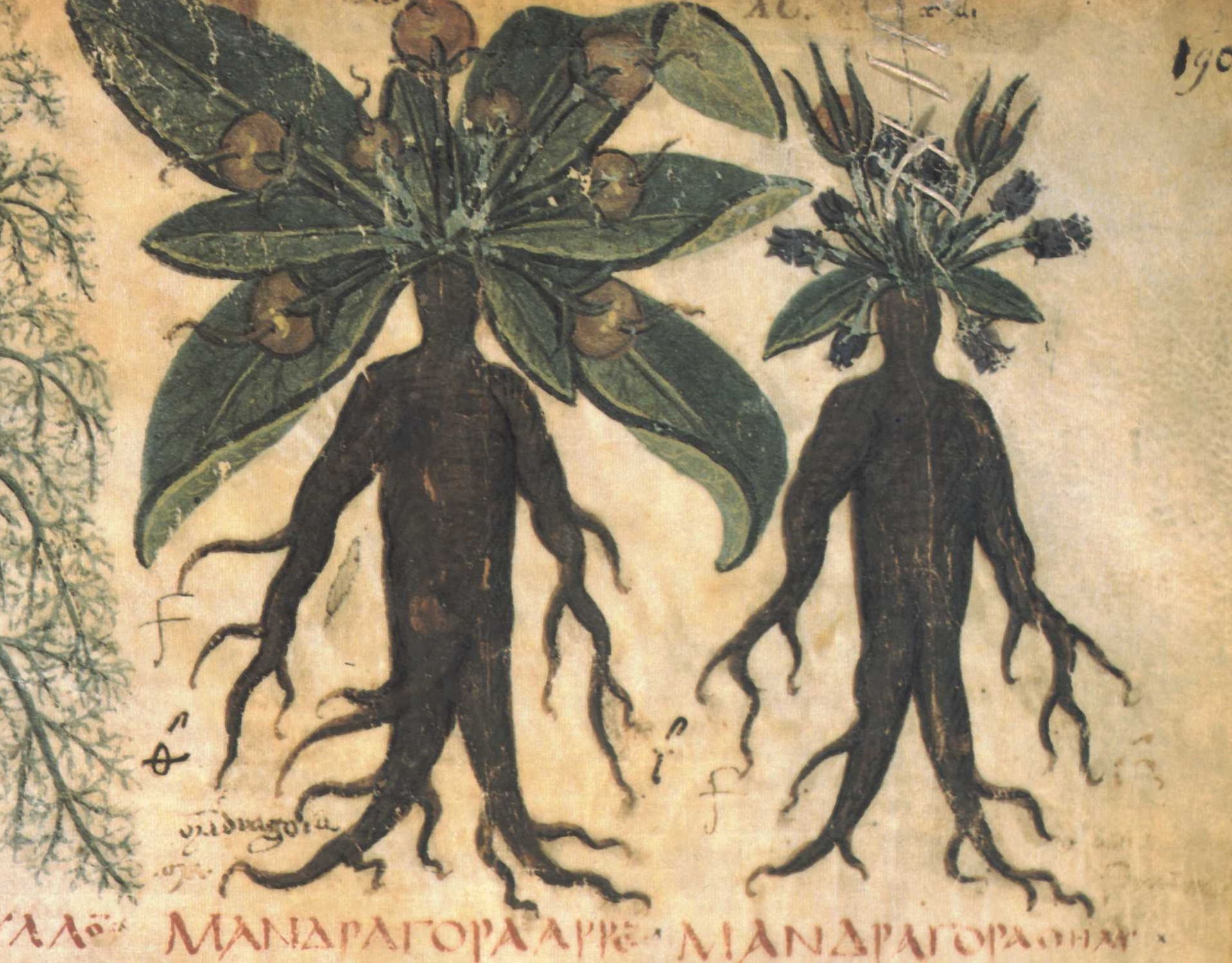 Mandrake (gr. ΜΑΝΔΡΑΓΟΡΑ, in capital letters). Folio 90 from the Naples Dioscurides, a 7th century manuscript of Dioscurides De Materia Medica (Naples, Biblioteca Nazionale, Cod. Gr. 1).